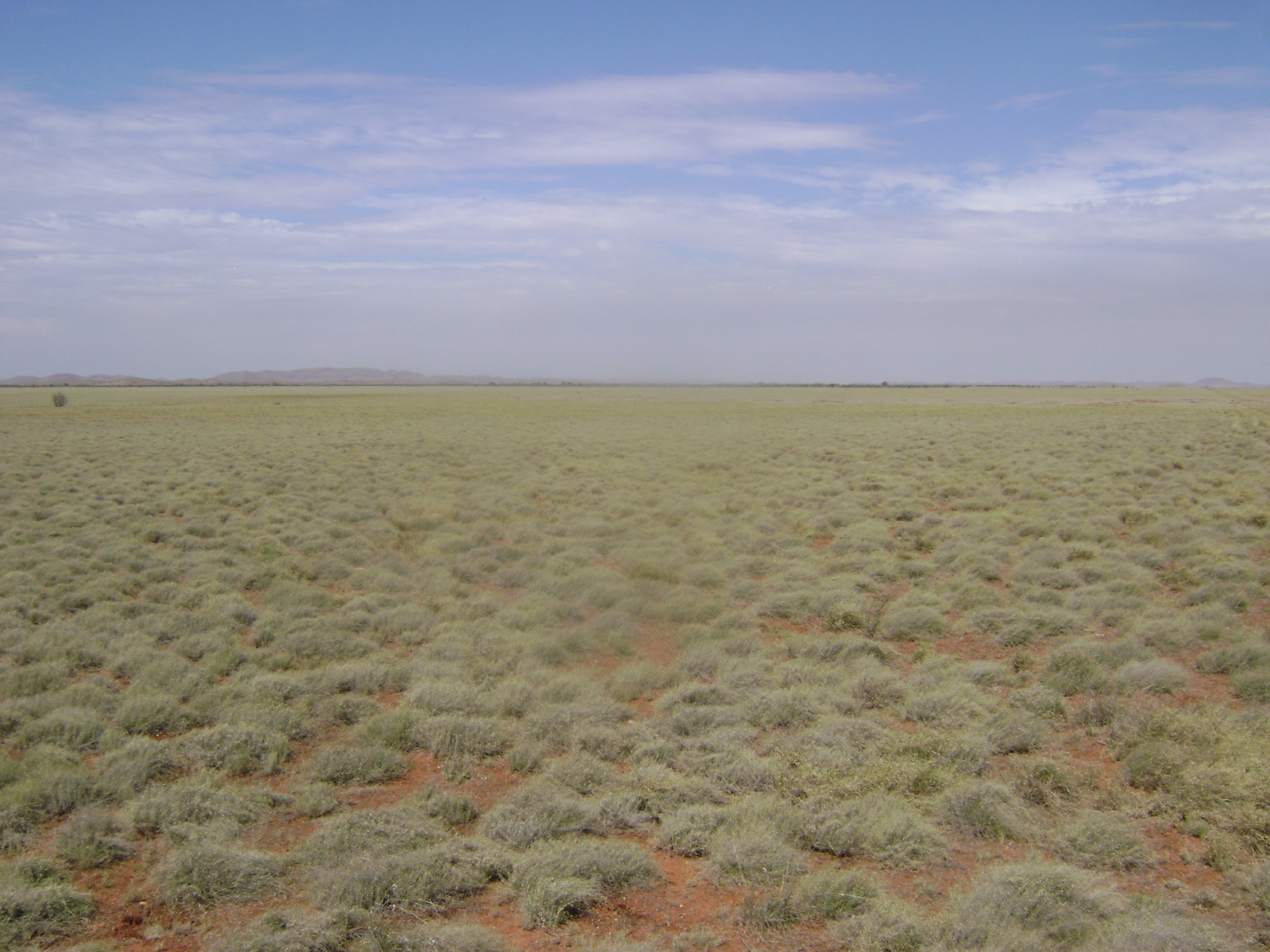 Quartz Hill near Balla Balla Southern Aspect